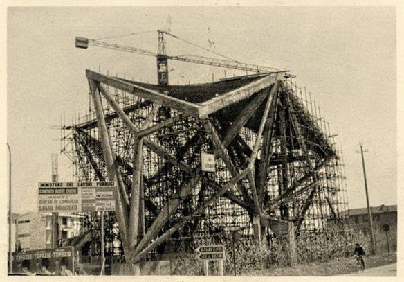 Church of Longuelo (Bergamo) during its building period (1961-1966)